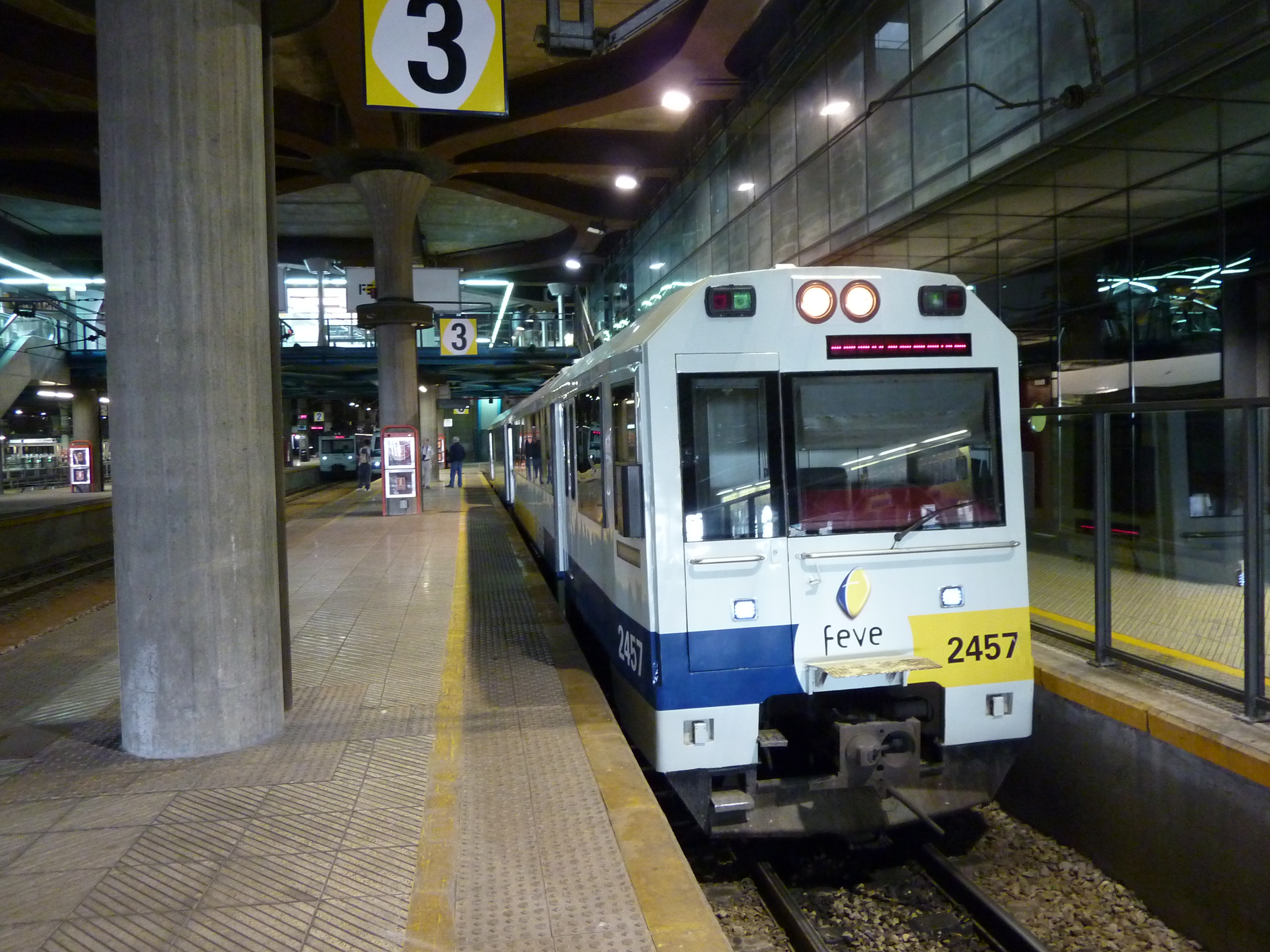 Railway station Oviedo (FEVE) in Asturias, Spain